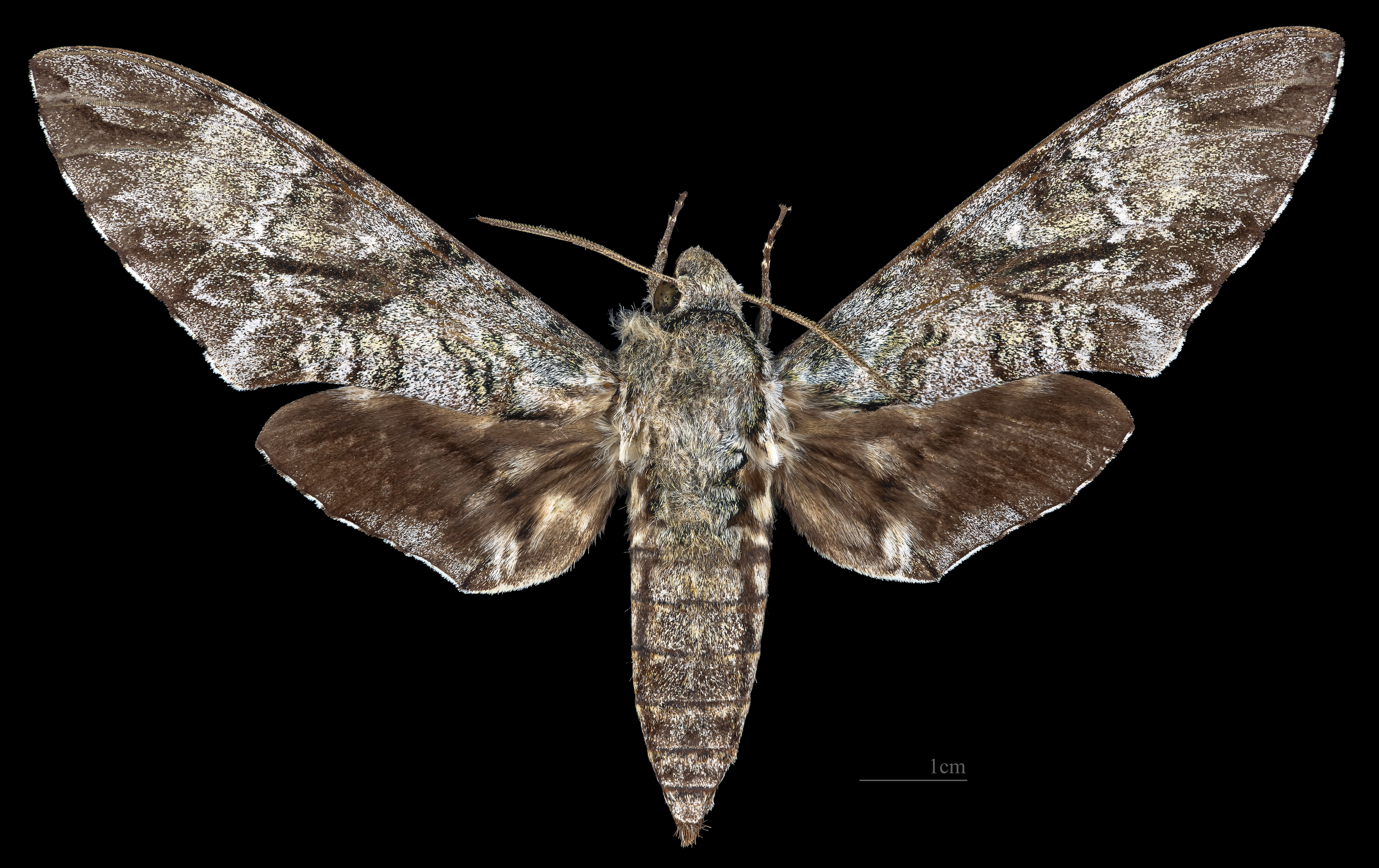 Manduca barnesi - Dorsal side Collection of the Mathematician Laurent Schwartz